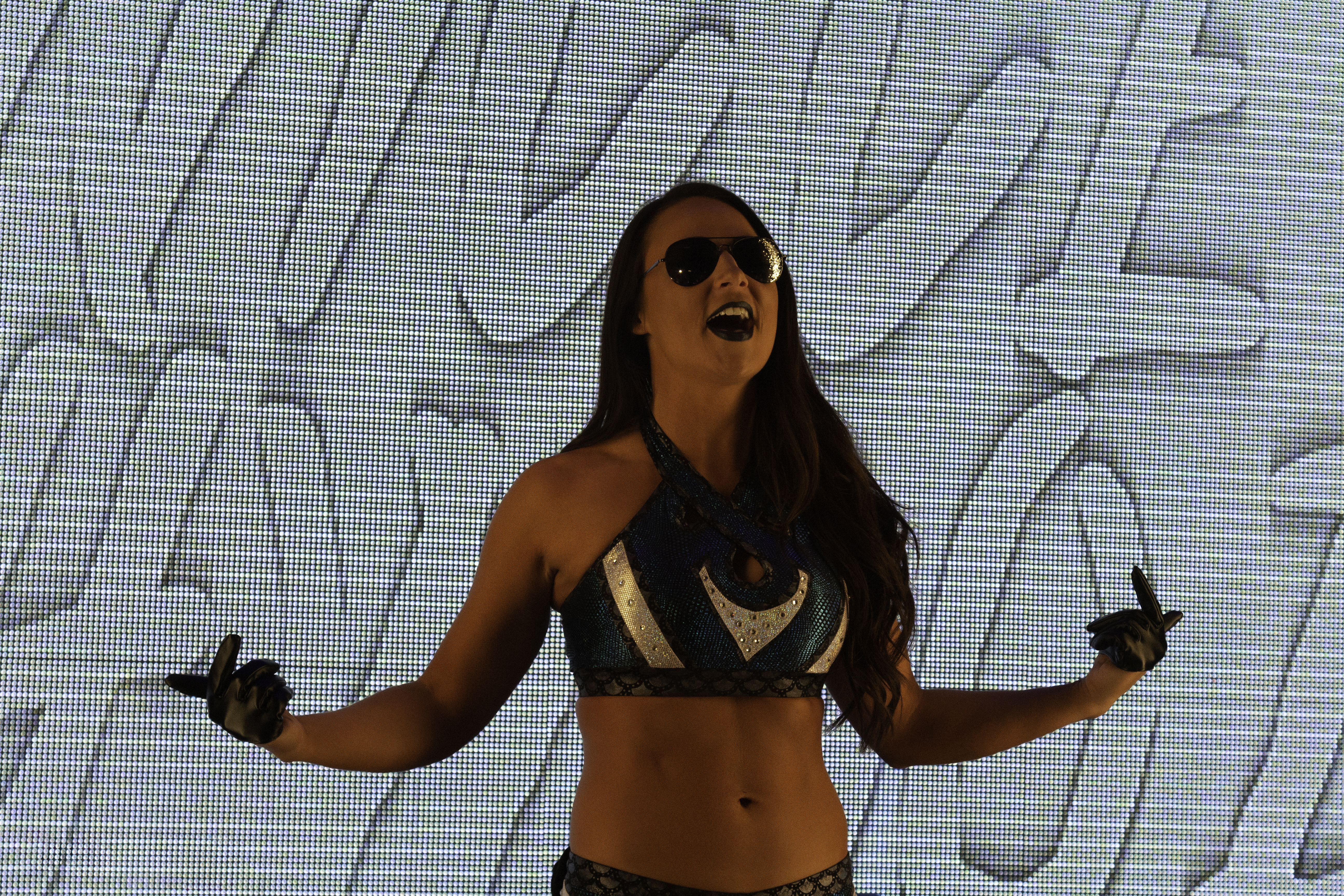 Tenille Dashwod at ROHxNJPW Global Wars 2018 Night 2 in May 2018.